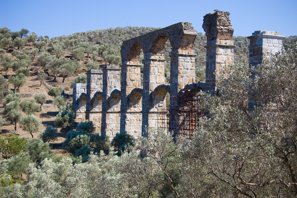 Near the village of Moría, these remains of an aqueduct, built at around 200, can be seen. It was constructed to lead water from Mt Olympus to Mytilene, and the simple fact that it is still standing today is a testament to the skill of roman engineering.